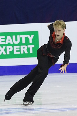 Michal Březina 2013 European Championships